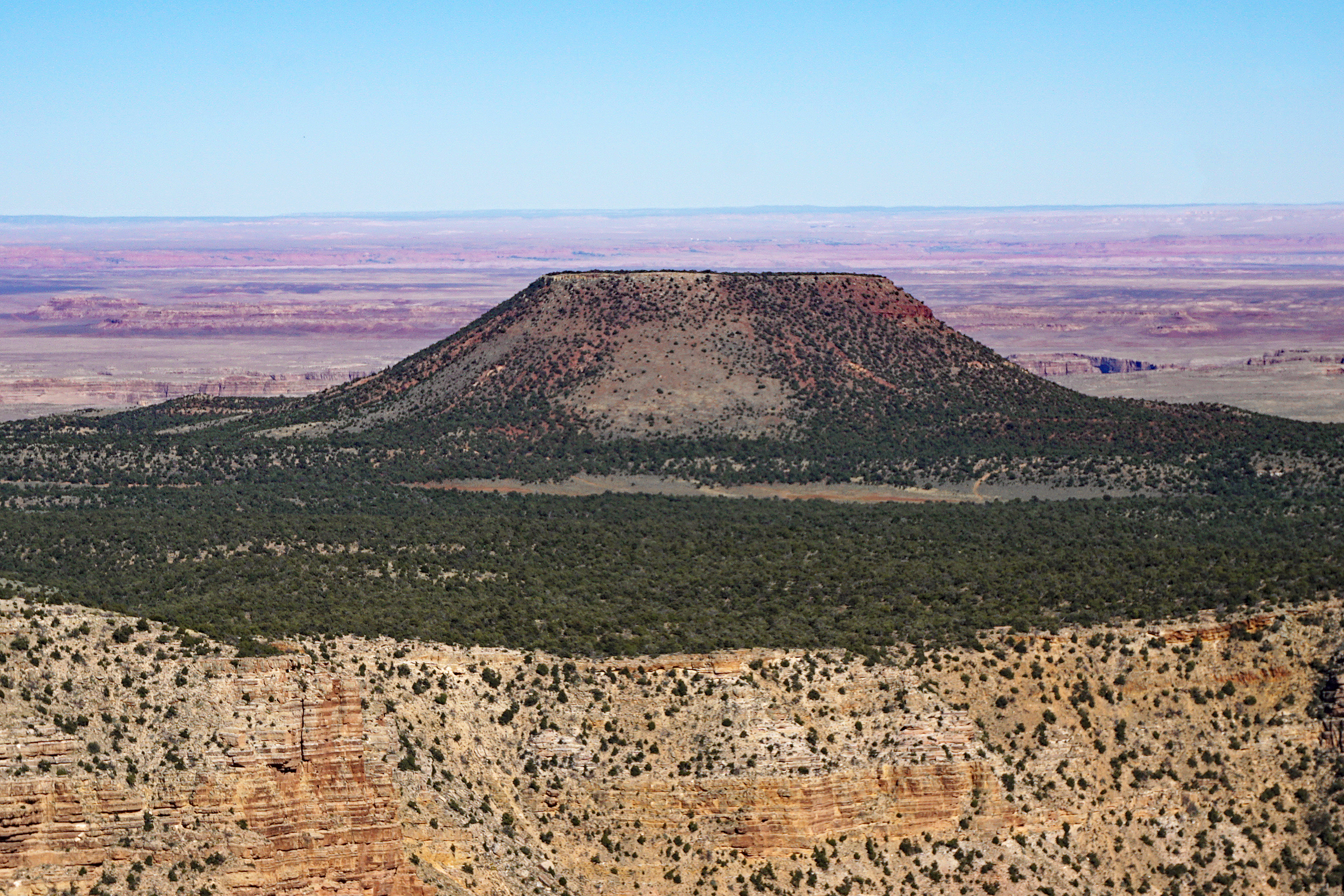 Cedar Mountain viewed from the Desert View Watchtower